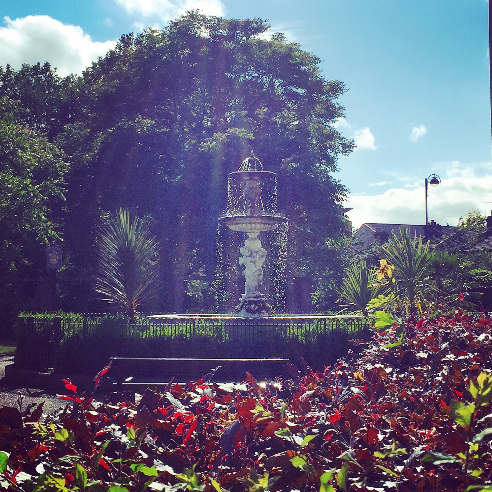 Coronation Gardens, June 2015